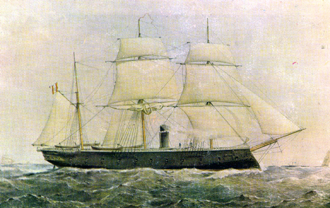 Peruvian ironclad Independencia was an armored corvette built in England for the Peruvian Navy. She was laid down in 18 June 1864 and launched on 8 August 1865 and completed in December 1866.